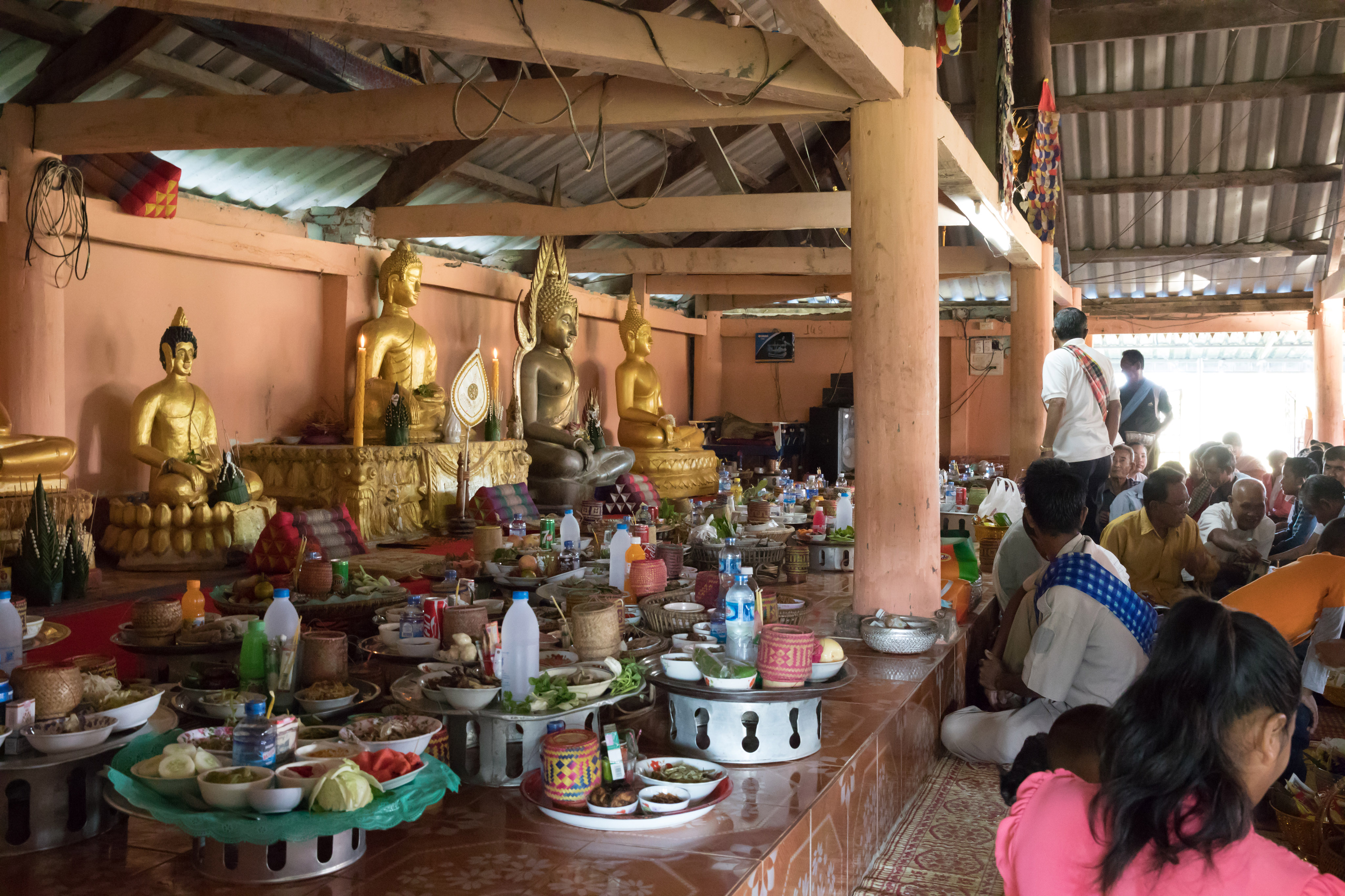 Trays with food and bottles of water in the temple of Don Det (Laos), for the monks and the local families sharing a meal together, the day of the celebration of the ancestors (Boun Khao Padap Din).